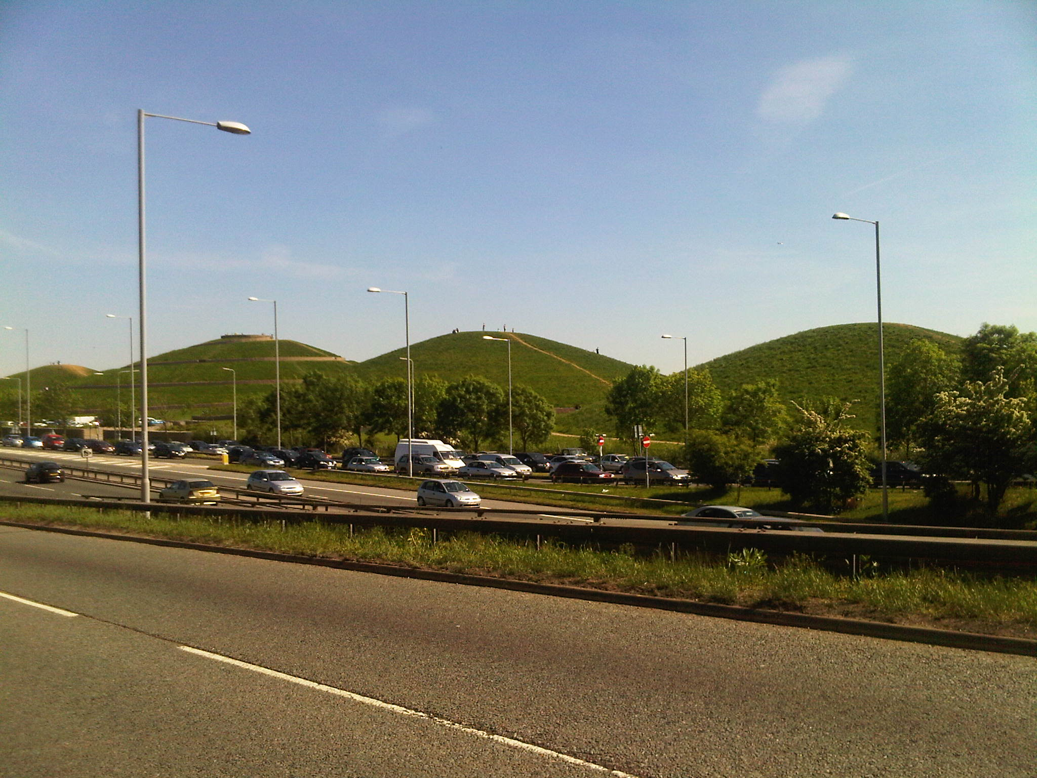 Four hills of Northala Fields in Northolt, London (view from A40).